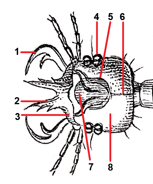 Leistus rufomarginatus larva head anatomy (ventral view); 1: mandible, 2: nasale, 3: adnasalia (adnasale), 4: ocelli, 5: frontal suture, 6: epicranial suture, 7: frontal piece, 8: parietalium